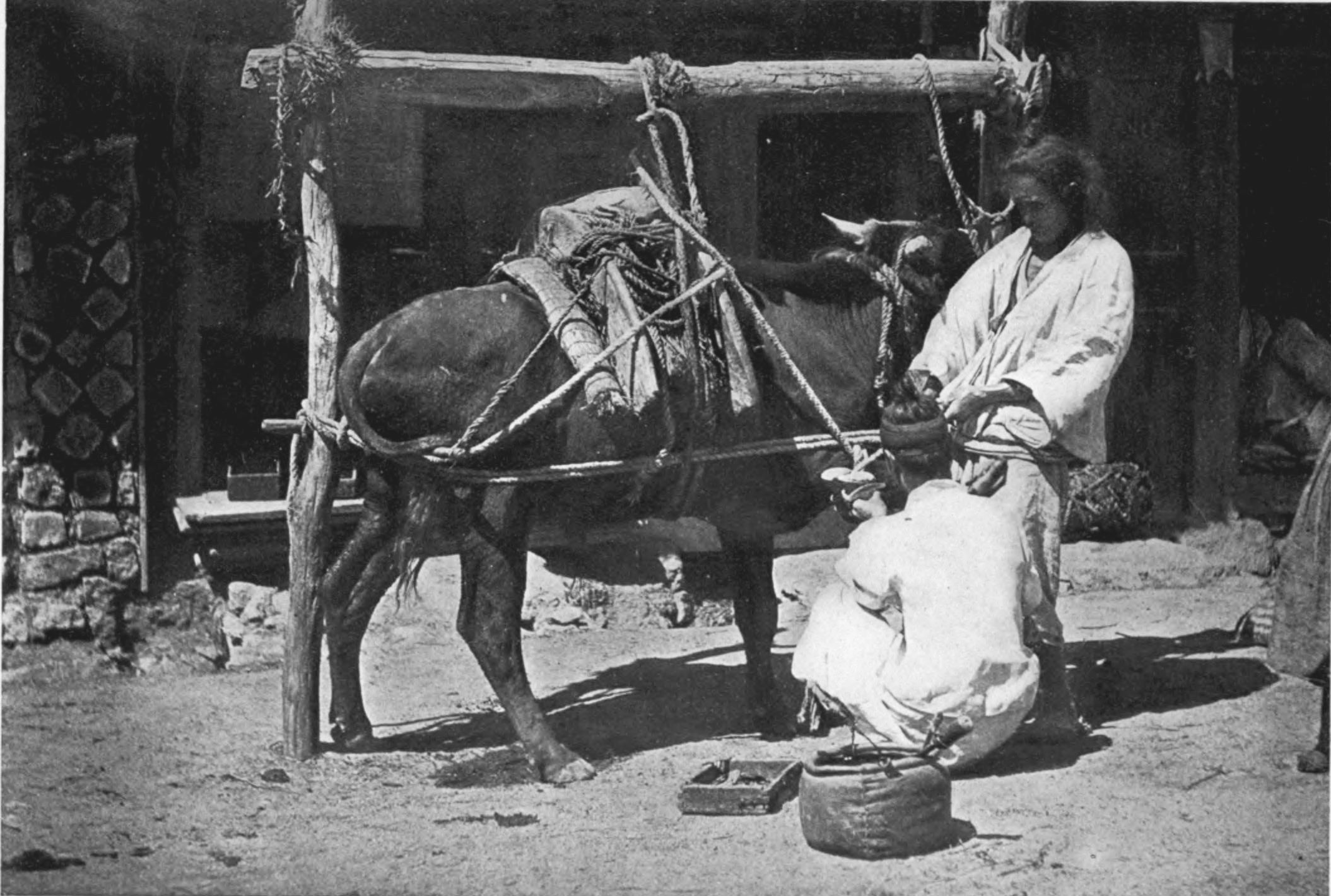 Shoeing a bull, Korea c.1900; p.43 The passing of Korea (book)